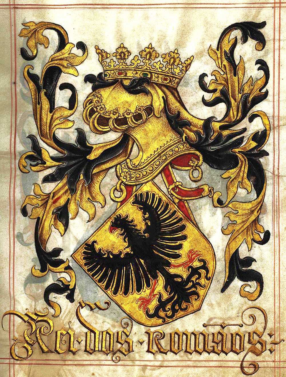 King of the Romans